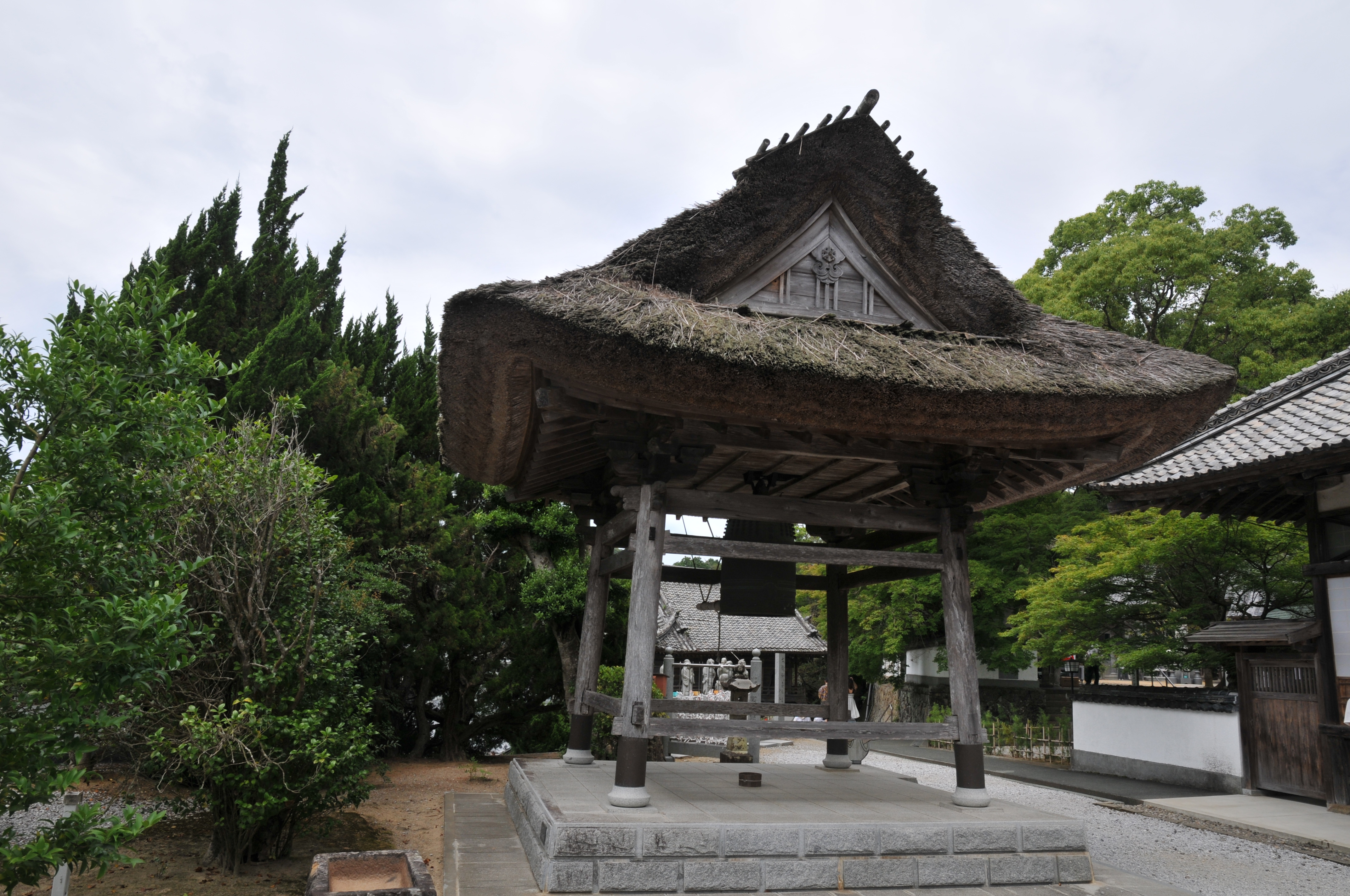 Belfry, Butsumoku-ji